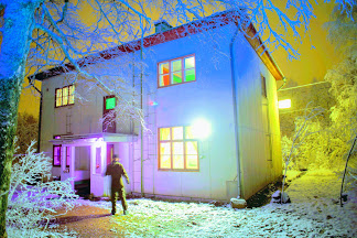 Historical pictures of Finnish Inns.